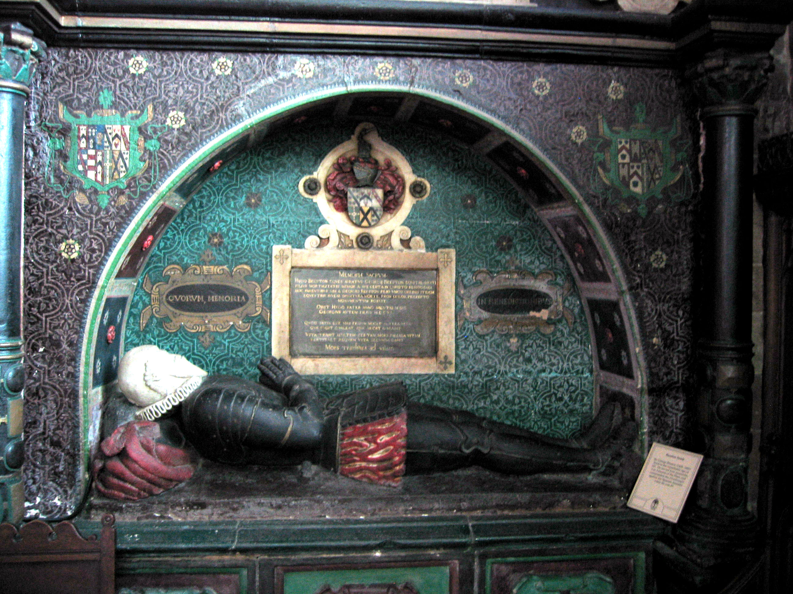 Photograph of the Effigy of Sir George Beeston in the chancel of St Bonifice's Church, Bunbury, cheshire, England